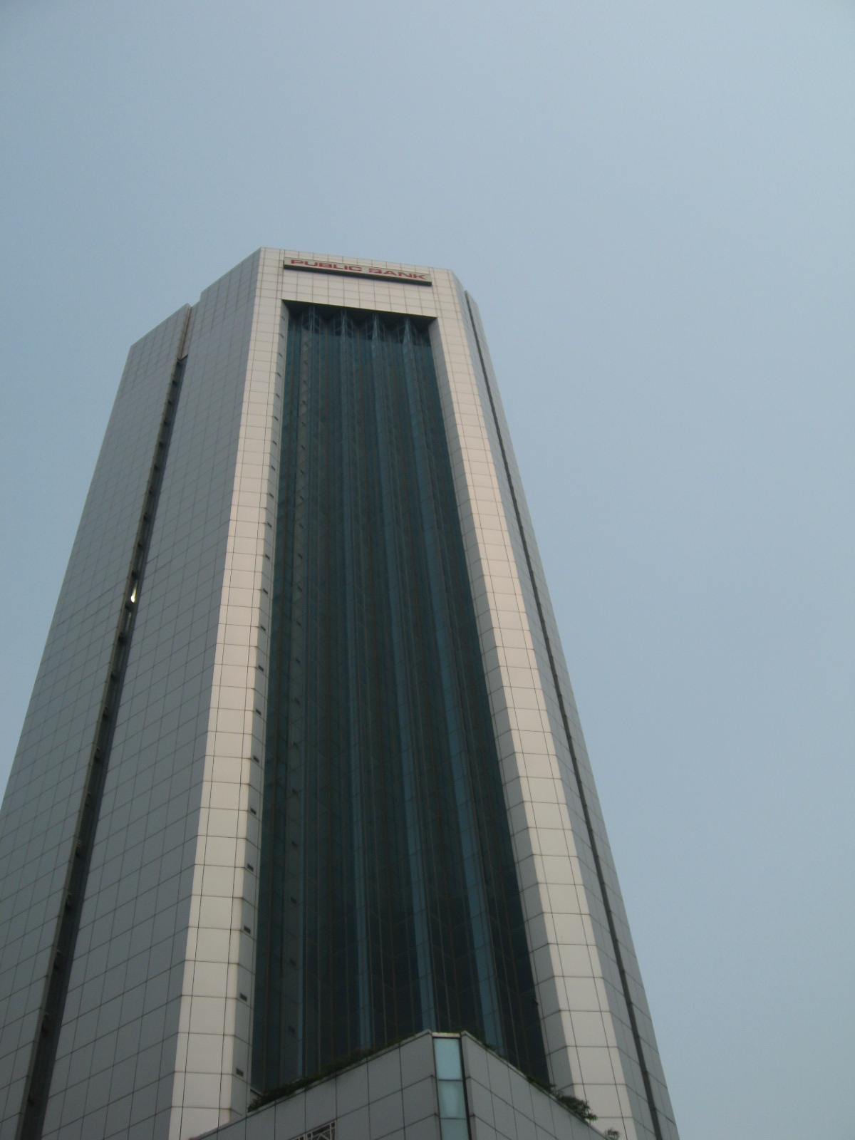 Menara Public Bank.